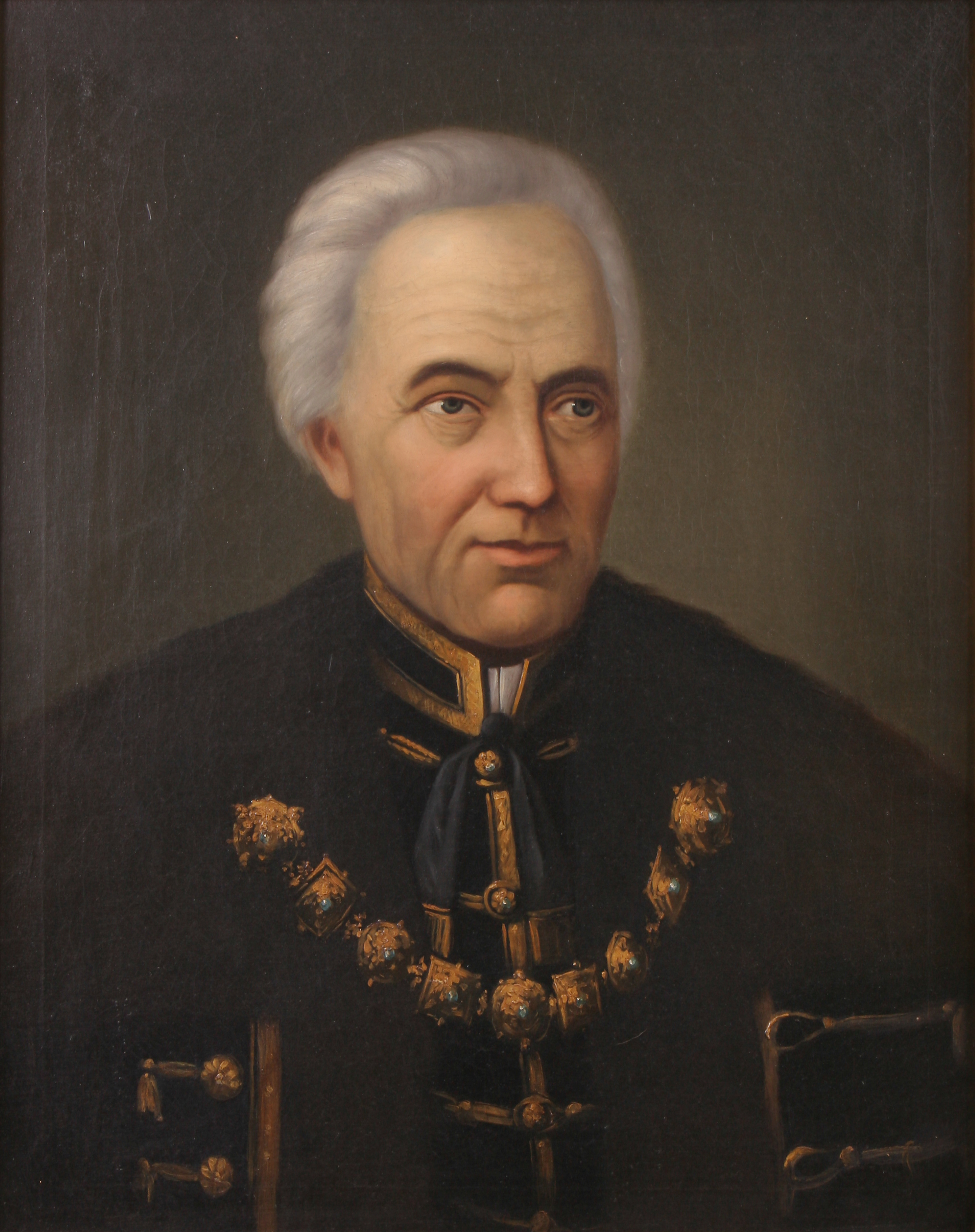 Portrait of Sava Vuković (1737-1810), Serbian merchant, benefactor and founder of the Serbian Orthodox Gymnasium in Novi Sad. Srpski (latinica): Portret Save Vukovića (1737-1810), trgovca, dobrotvora i osnivača Srpske pravoslavne velike gimnazije u Novom Sadu.